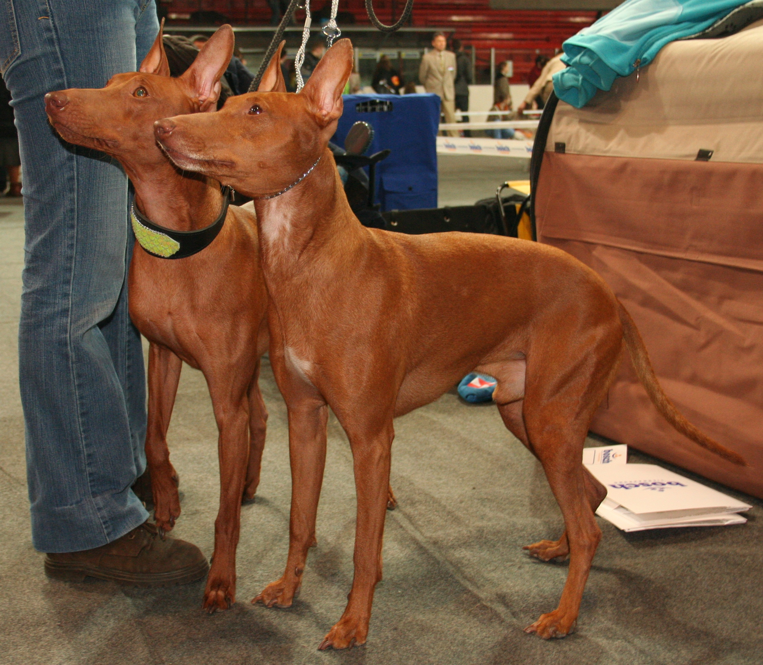 Cirneco dell'Etna during International show of dogs in Katowice - Spodek, Poland